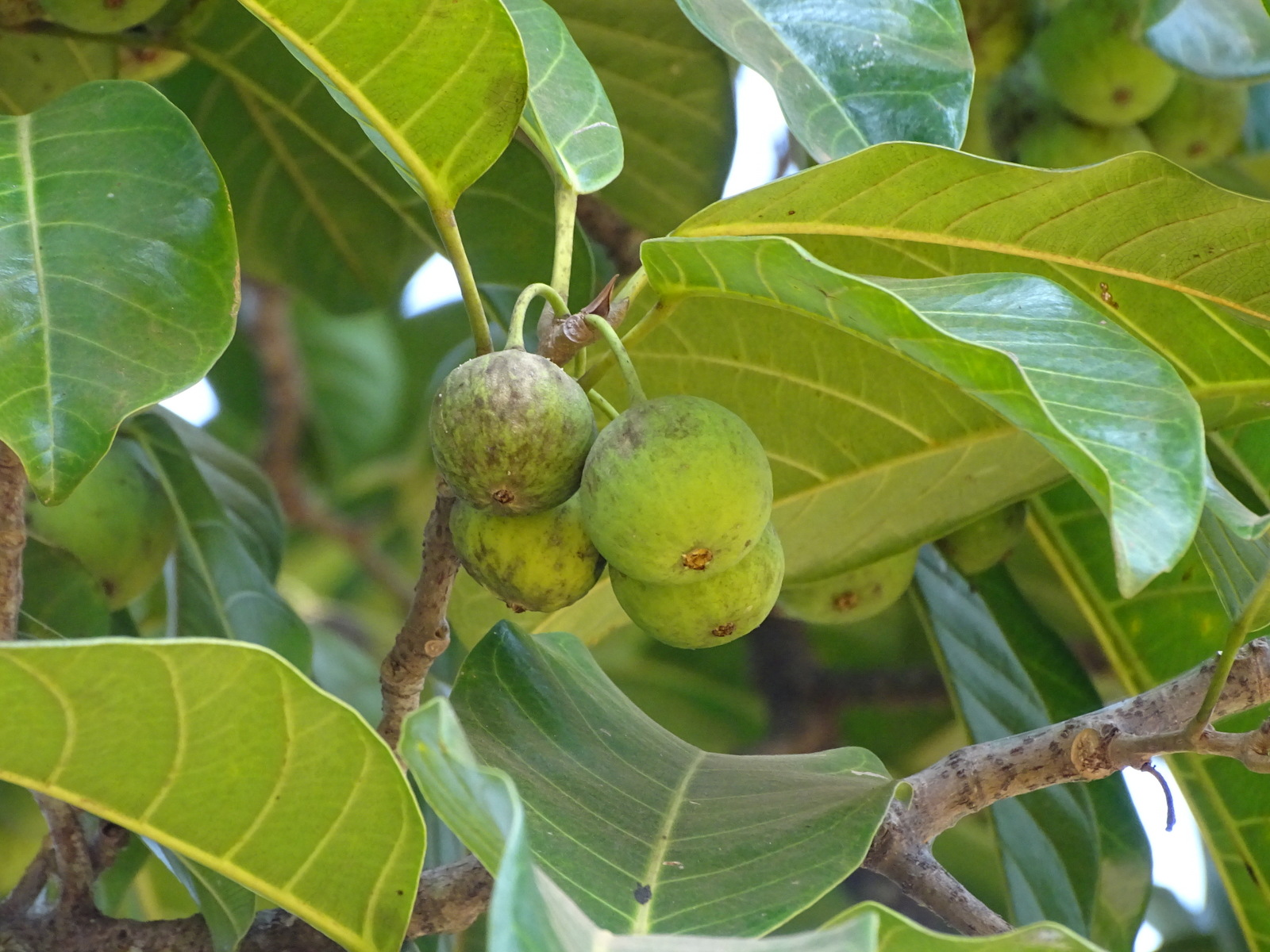 Ficus callosa Willd seen in Palapilly near fringes of forest of Chinmony dam, Trichur.